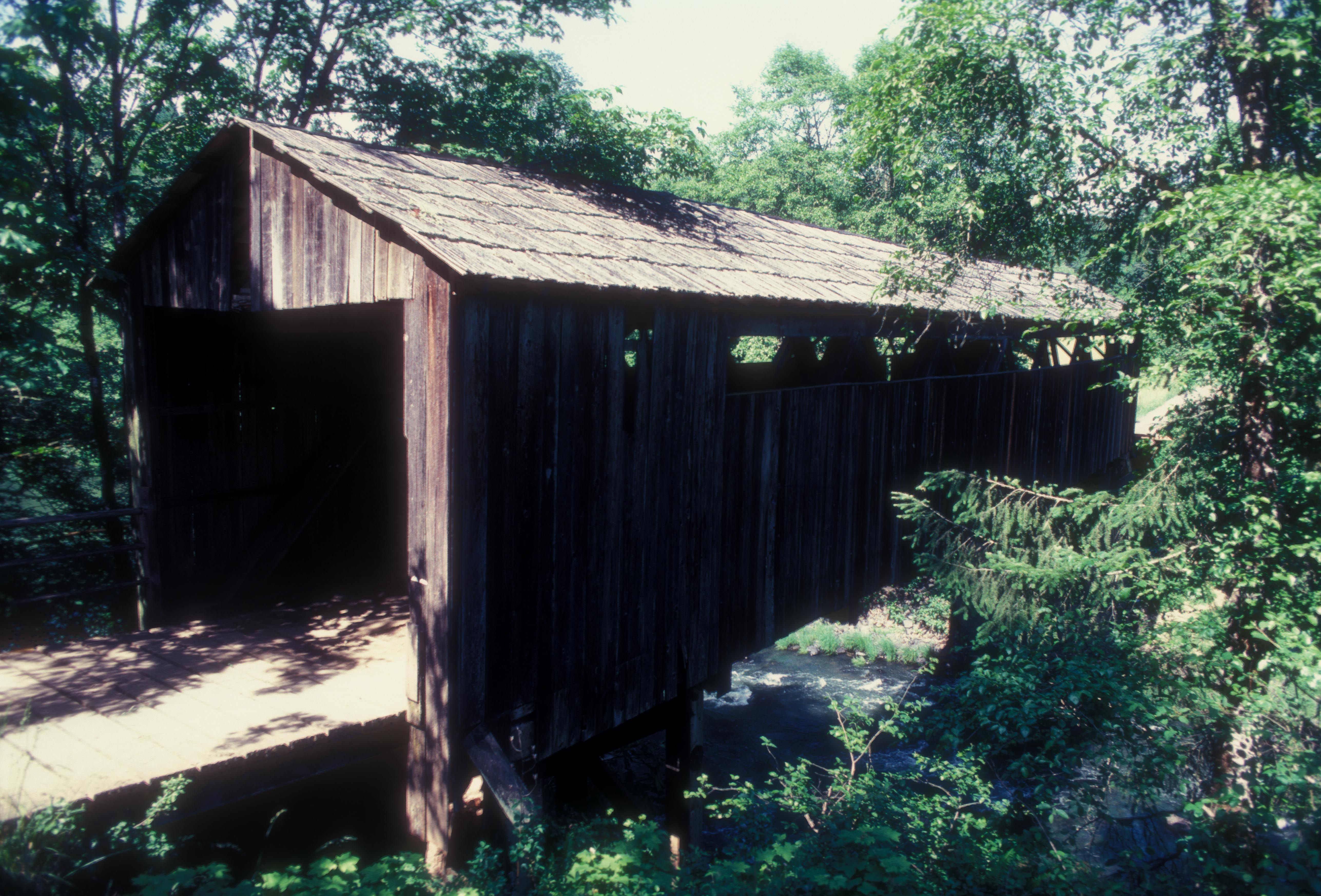 88' 1929 HOWE OVER ELK CREEK (THIS BRIDGE HAS BEEN DEMOLISHED)